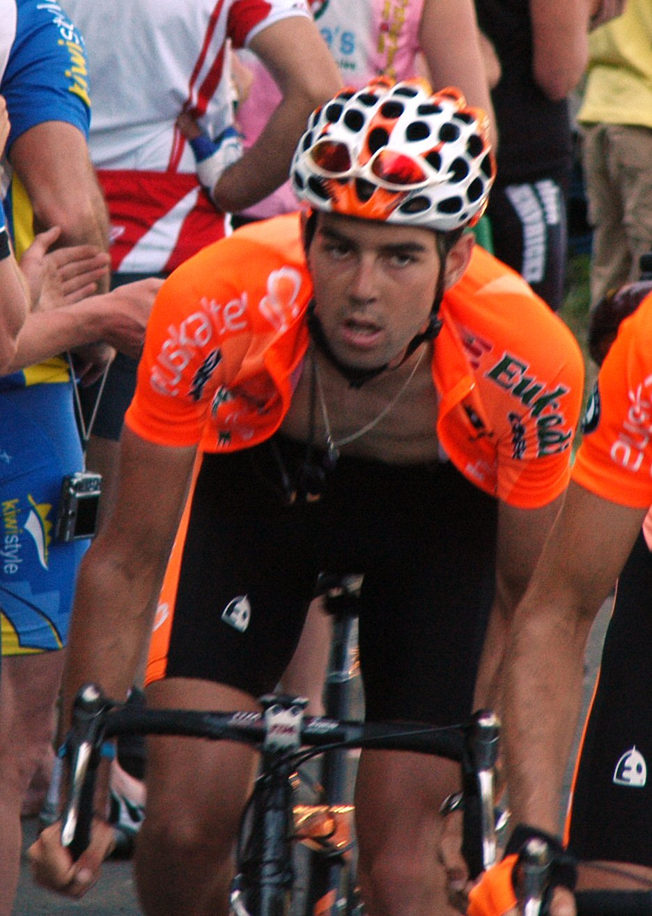 Jorge Azanza Soto at stage 7 of the Tour de France 2007 on the Col de la Colombière.